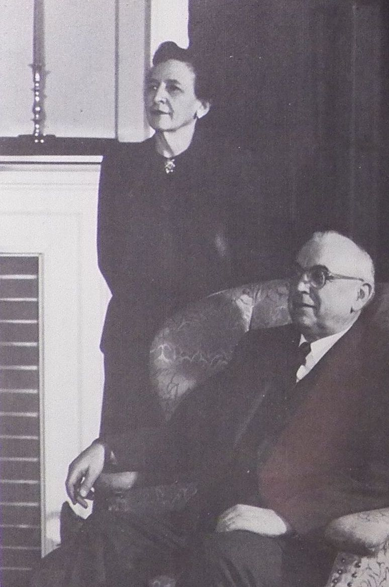 Shimer College president A.J. Brumbaugh and wife Ruth Sherrick Brumbaugh, in the Sawyer House president's residence on the original Shimer College campus in Mt. Carroll, Illinois, c. 1952.